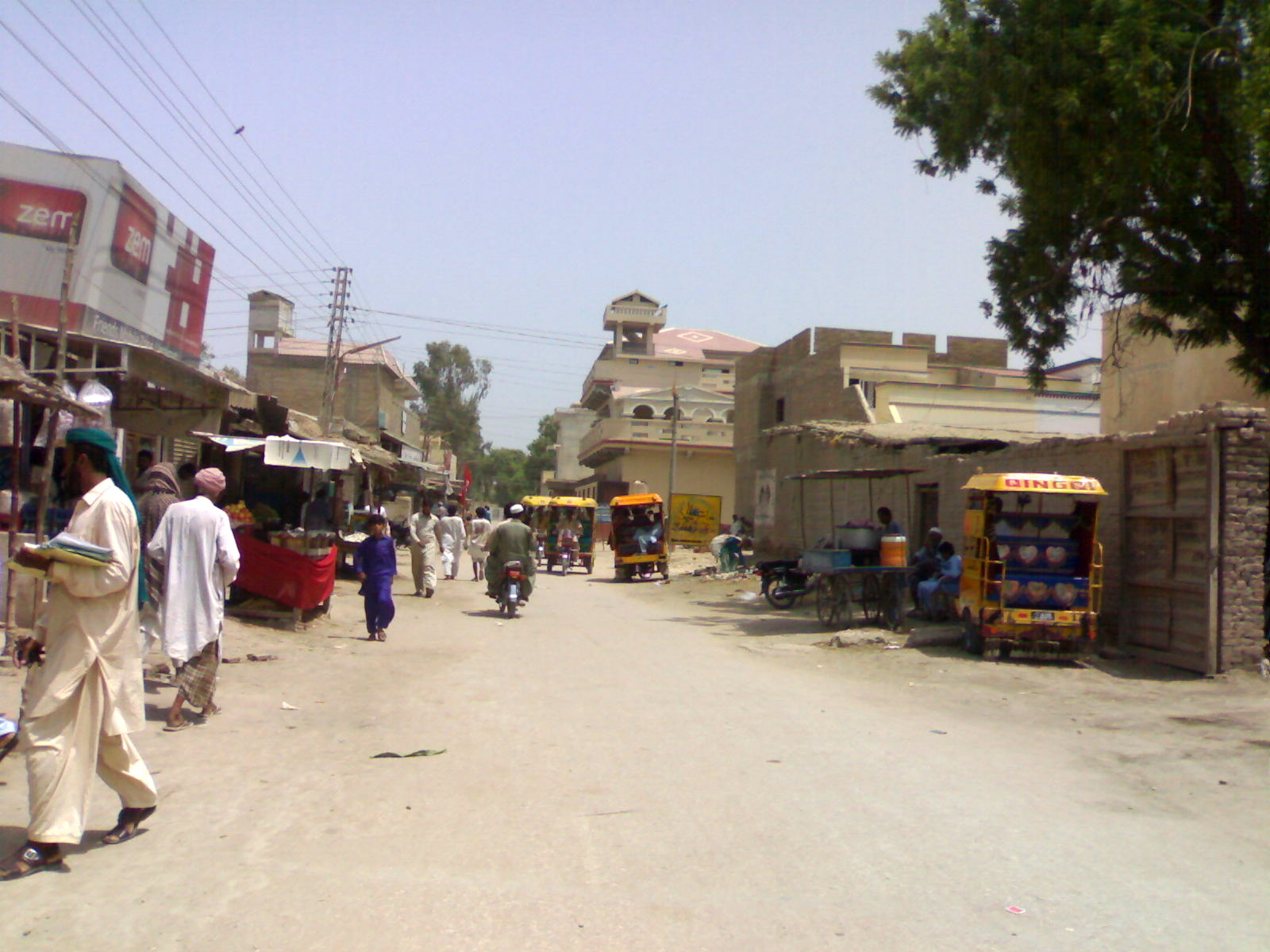 Girls College Road